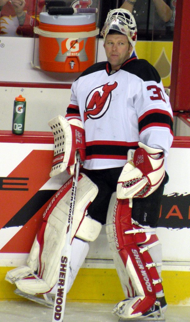 New Jersey Devils goaltender Martin Brodeur prior to a National Hockey League game against the Calgary Flames, in Calgary.